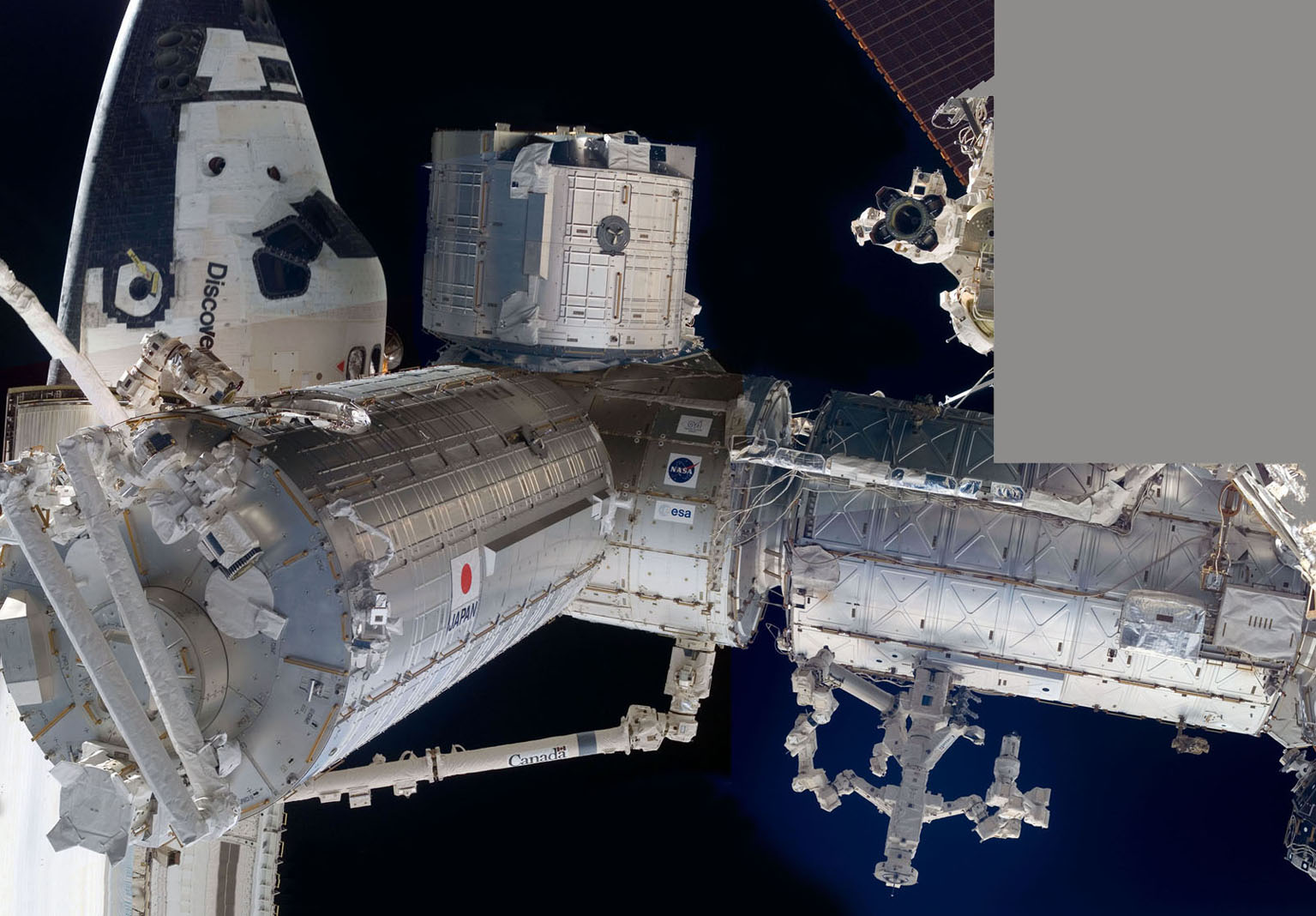 Composite view of the US Segment of the International Space Station taken during docked activities with STS-124